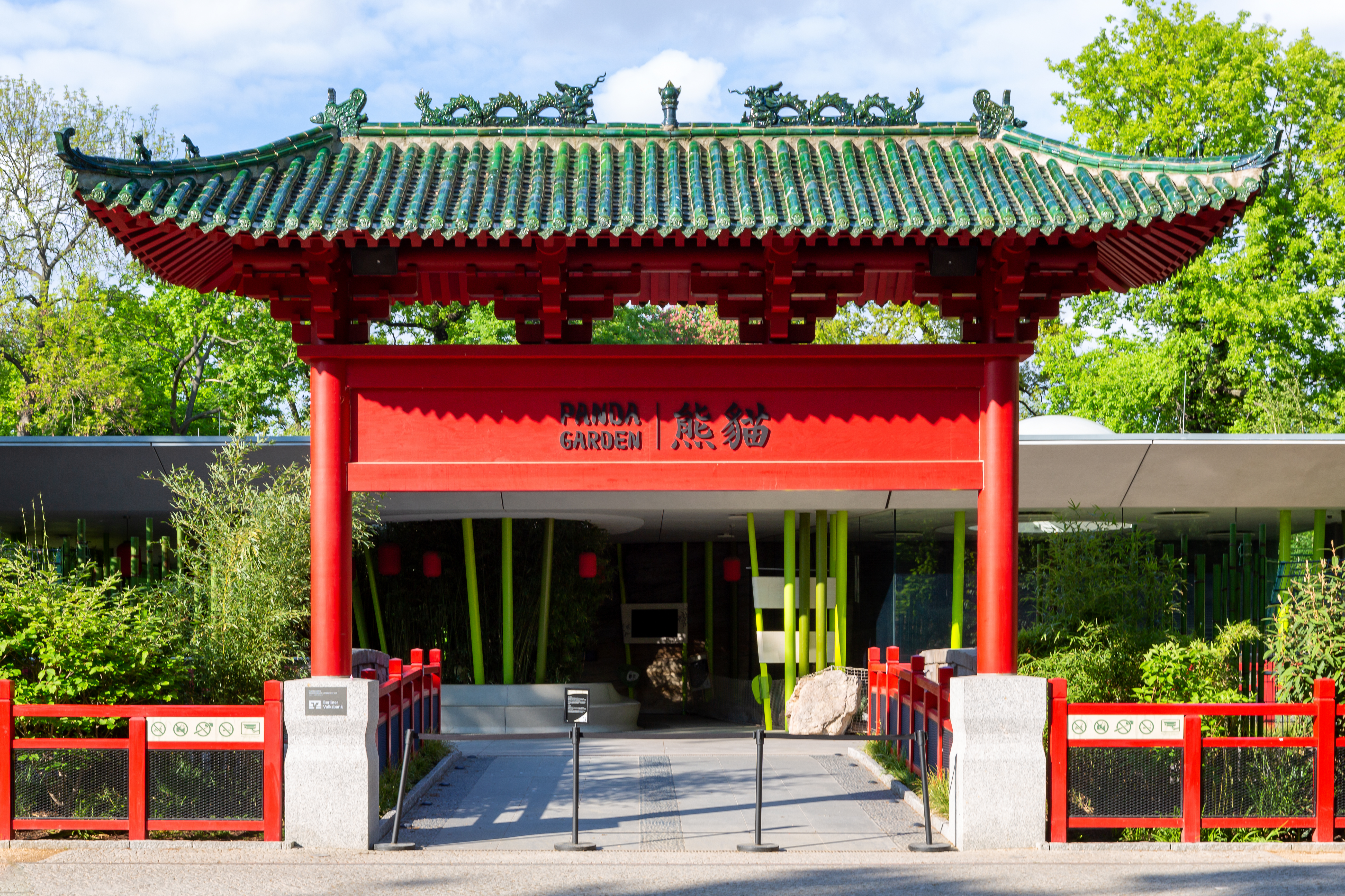 Panda Garden within the Berlin Zoological Garden, 2020